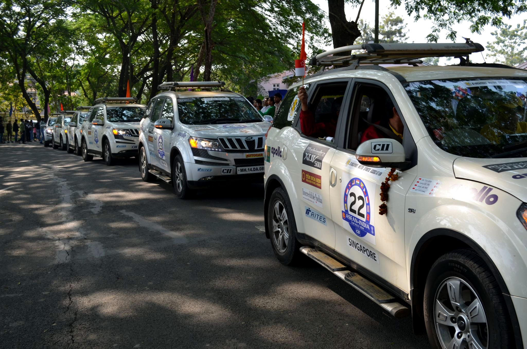 A car rally was organised between the Asean countries. This picture was clicked by me when the rally crossed Numaligarh(NH 37- [AH1]).